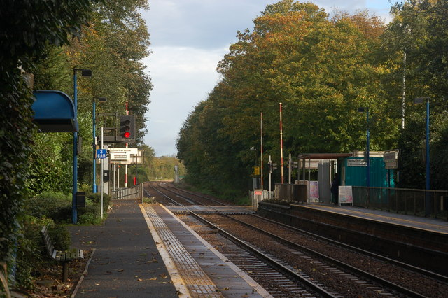 Jordanstown station, Northern Ireland Railways Jordanstown station has the advantages of being in a well-populated area, no direct competing bus service, close to the Jordanstown campus of the University of Ulster and peak-hour congestion on the road to and from Belfast. Anyone boarding at Jordanstown during the morning peak will not expect a seat. It is staffed for most day-time trains. This is the view towards Carrickfergus and Larne.